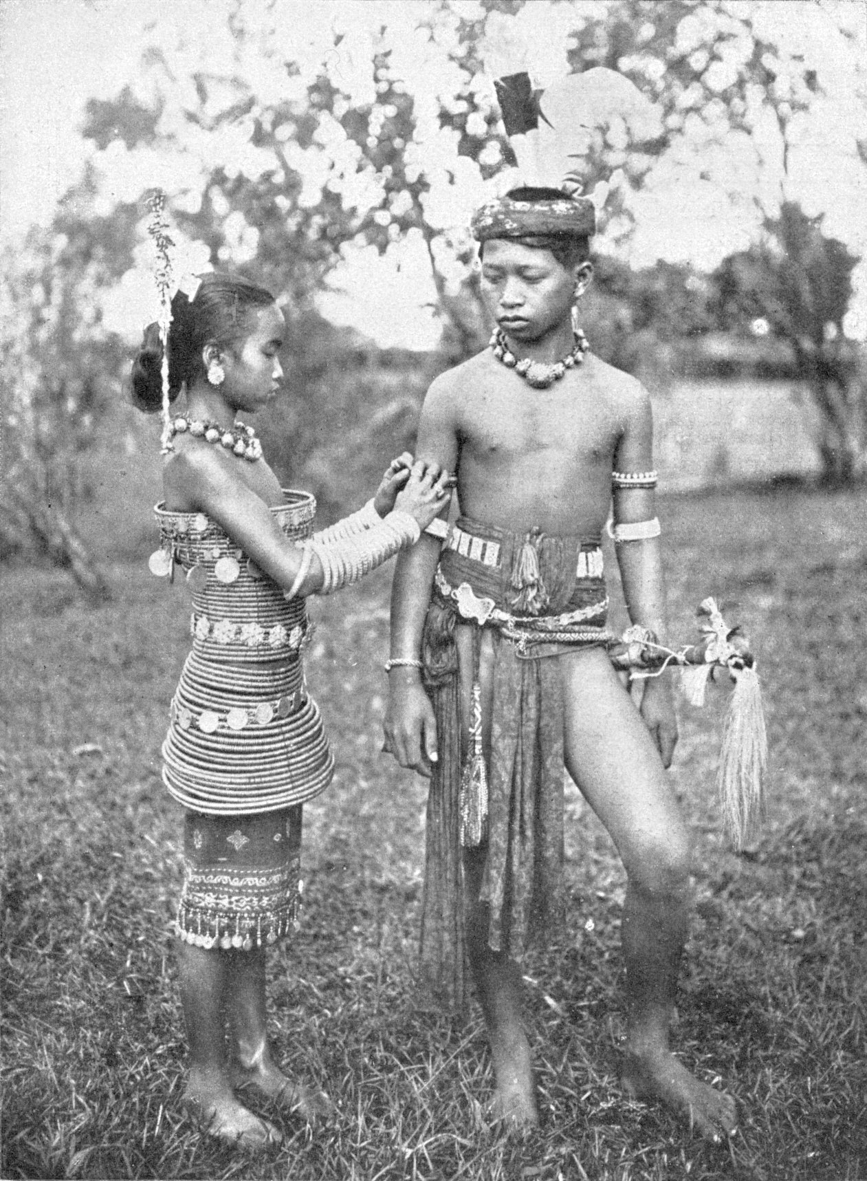 Dayak children.A Dayak boy and girl are here shown dressed in their best clothes for a ceremony. The stays of the girl are made of rattan covered with small brass rings, and are ornamented with silver dollars.